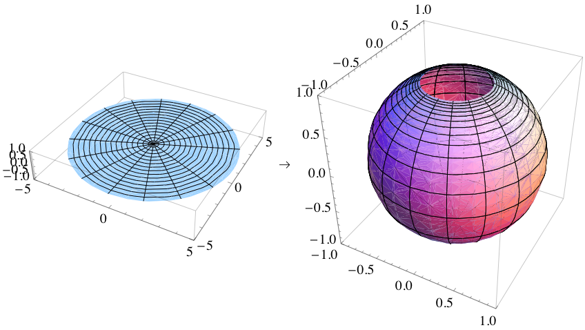 Stereographic projection onto polar plane, made using Mathematica 6.0.1.0